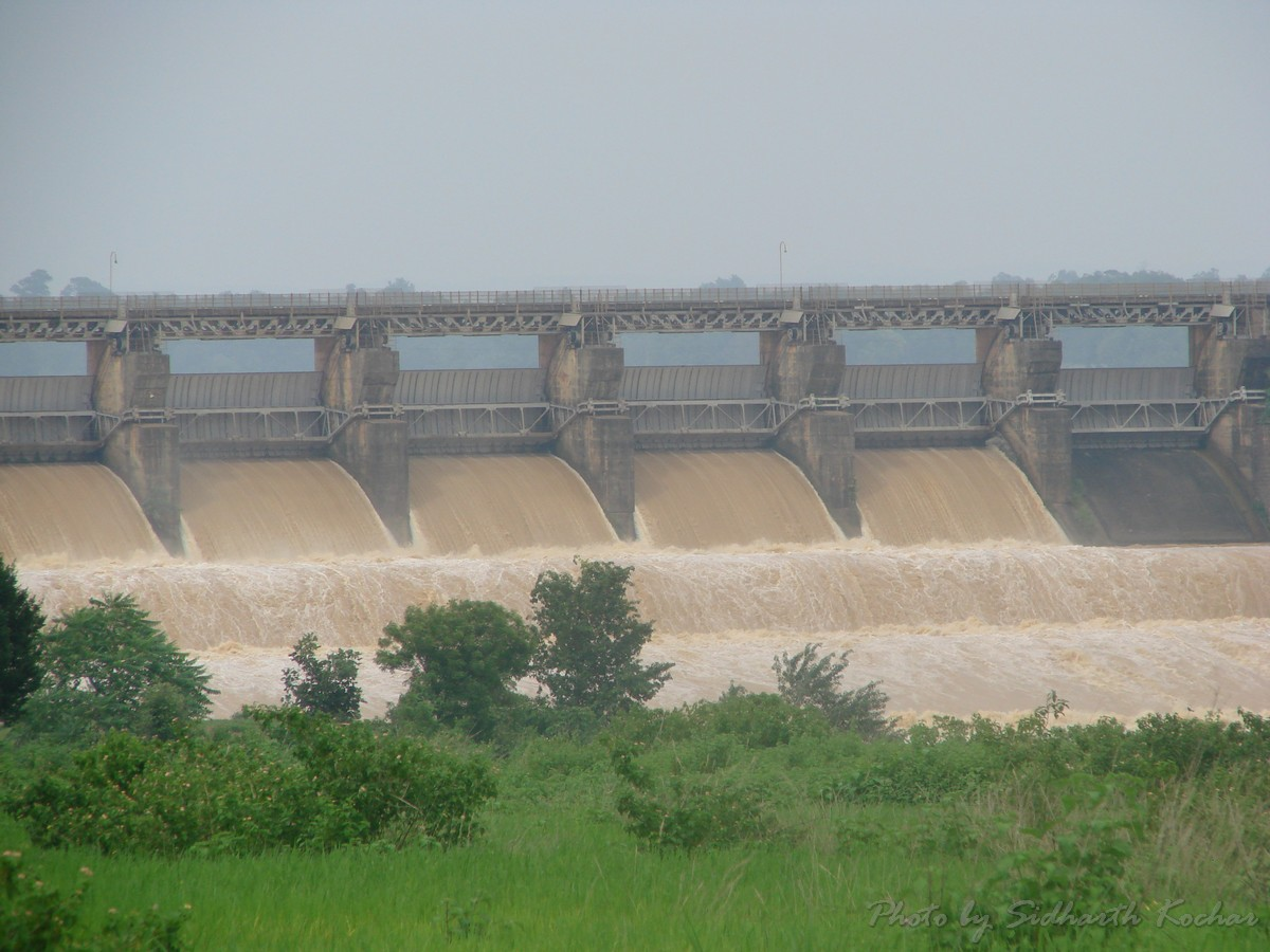 WATER FLOWING THROUGH GATES OF MANDIRA DAM